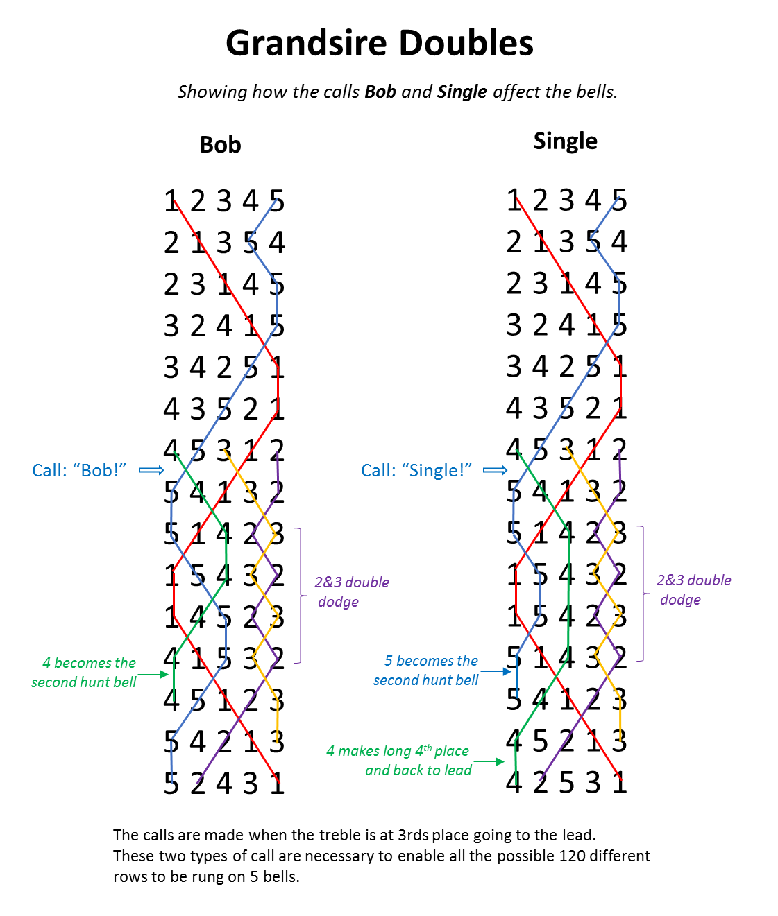 Showing the effect of calls on the order of bells.